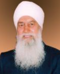 Dr Khem Singh Gill as a member of G.H.G. Harparkash College of Education for Women